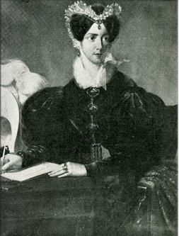 Maria Elisabeth of Savoy, archduchess of Austria